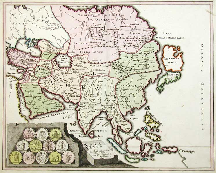 "Old Asia" (Asia Vetus) by Christoph Weigel, Nuremberg, 1719. 1719 map of Asia with Ptolemaic placenames. Copper engraving, with depictions of twelve antique coins in the bottom left corner.